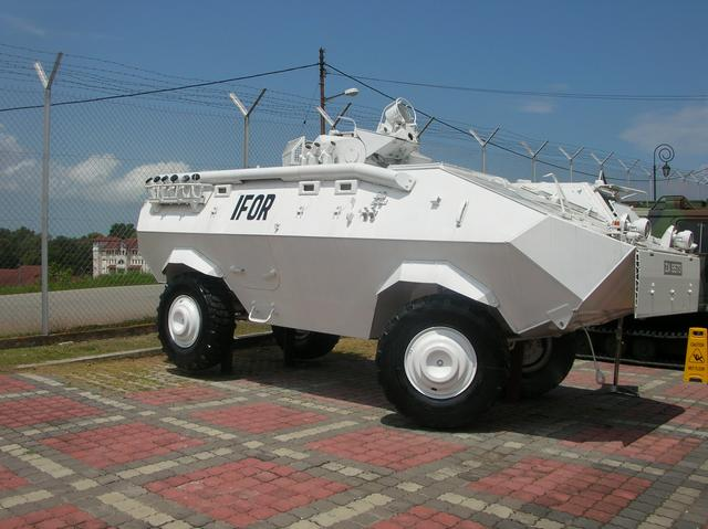 A Condor of the Malaysian Army.